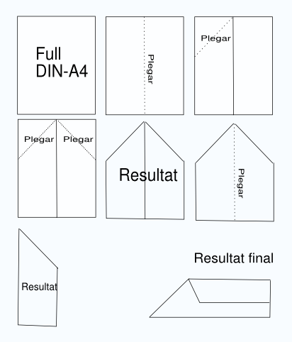 Catalan version of